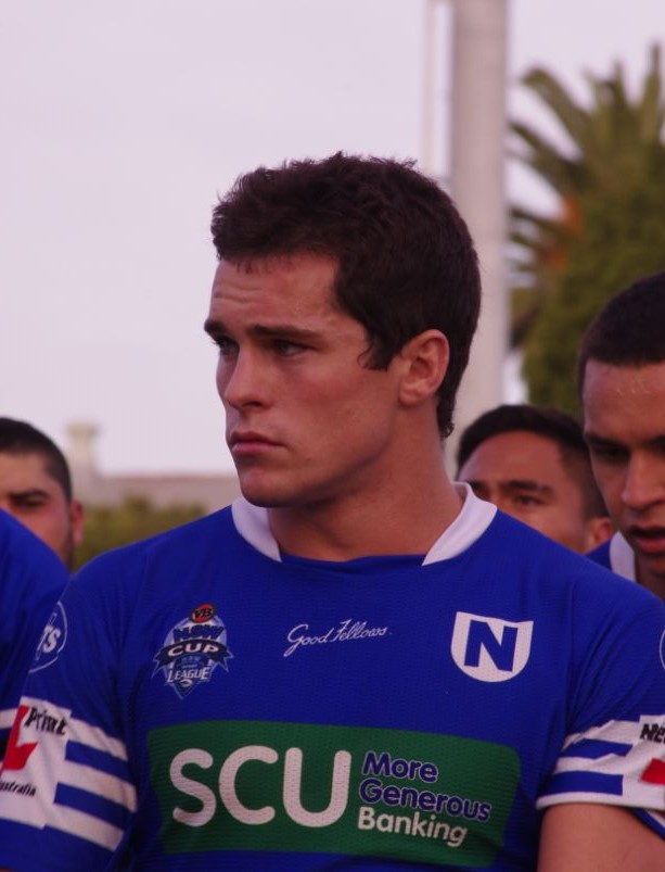 Daniel Mortimer